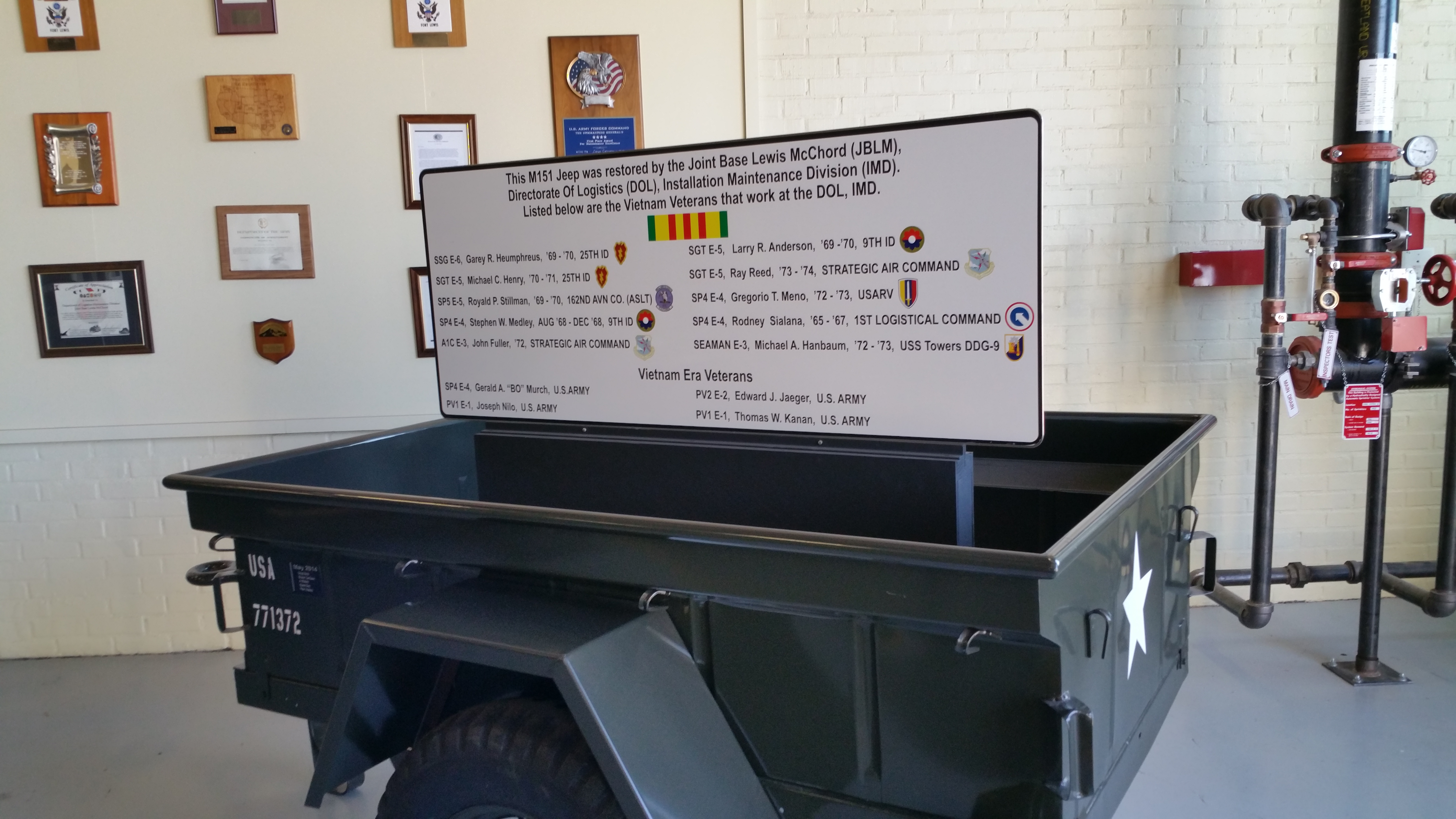 Ford M151 MUTT Trailer JBLM